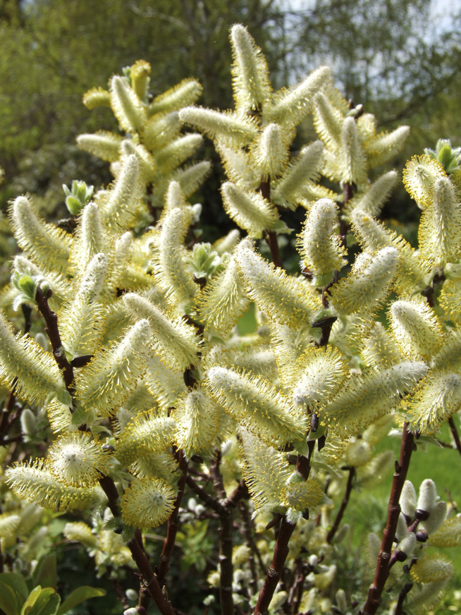 Expanded catkins of a dwarf willow, Salix hastata 'Wehrhahnii', a male cultivar